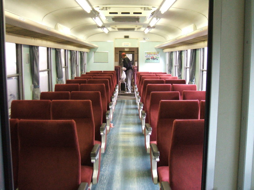 Interior of JR East 455 series EMU car KuRoHa 455-1